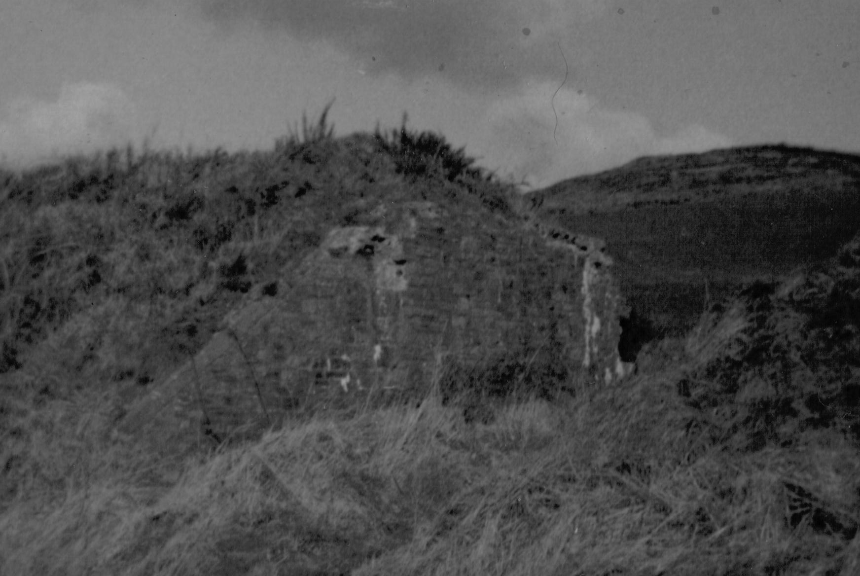 An old railway embankment and bridge abutment at Cornborough Cliffs, North Devon, England